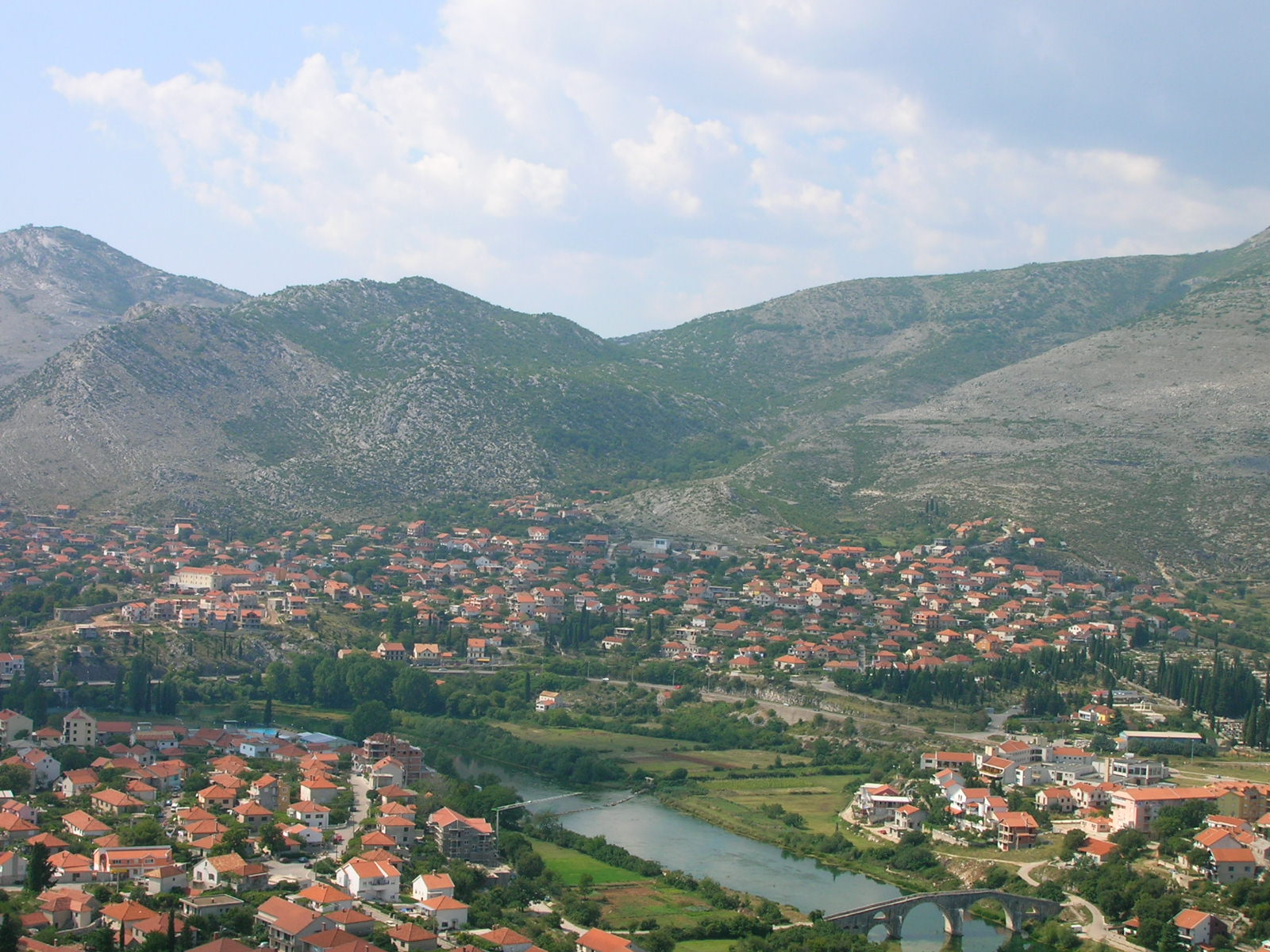 Trebinje Description: View of Trebinje, Bosnia and Herzegovina Source: self-made Date: created 2005-09-02 Author: Kevin Frost